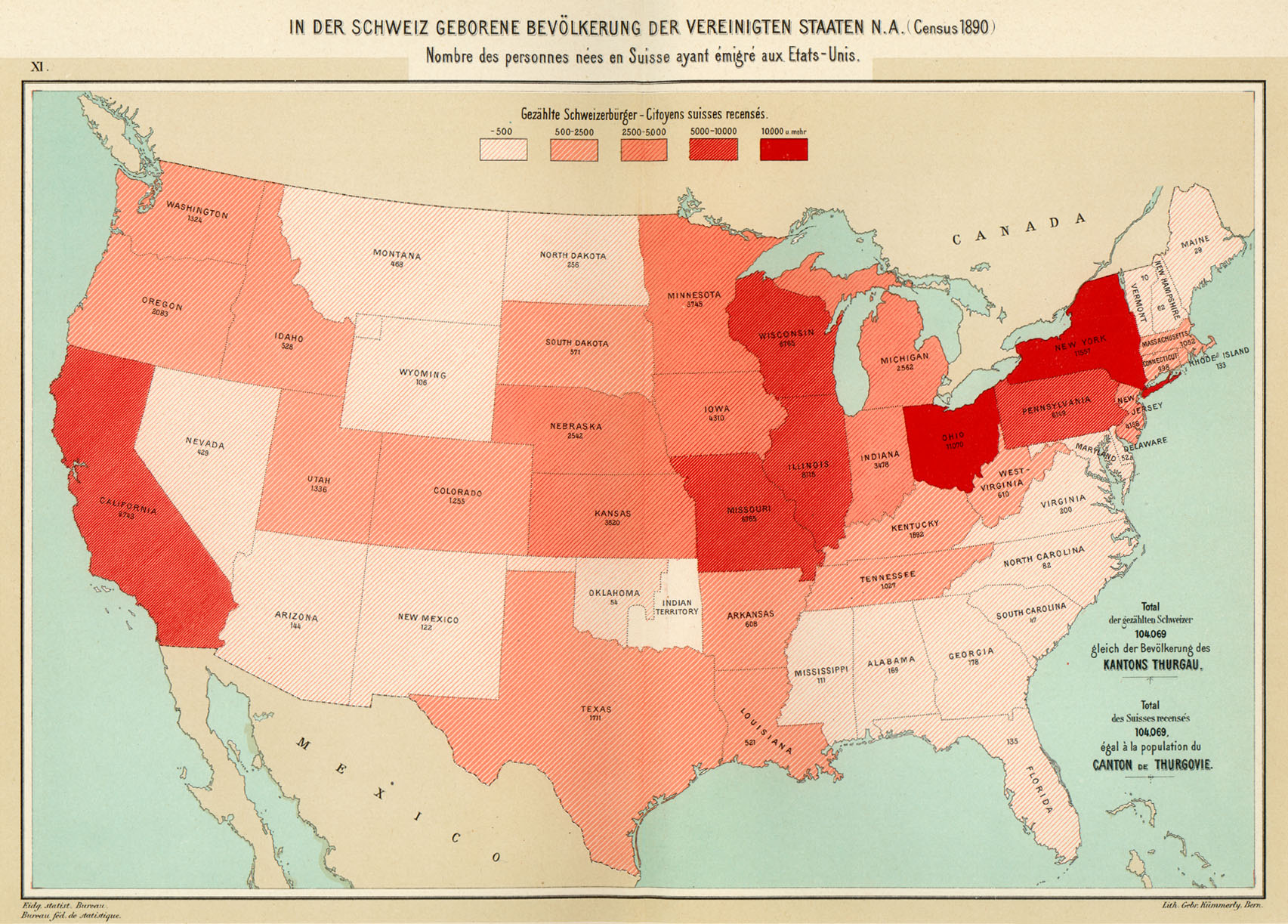 Map showing the number and distribution of Swiss emigrants to the USA in 1890 (total: 104,069).